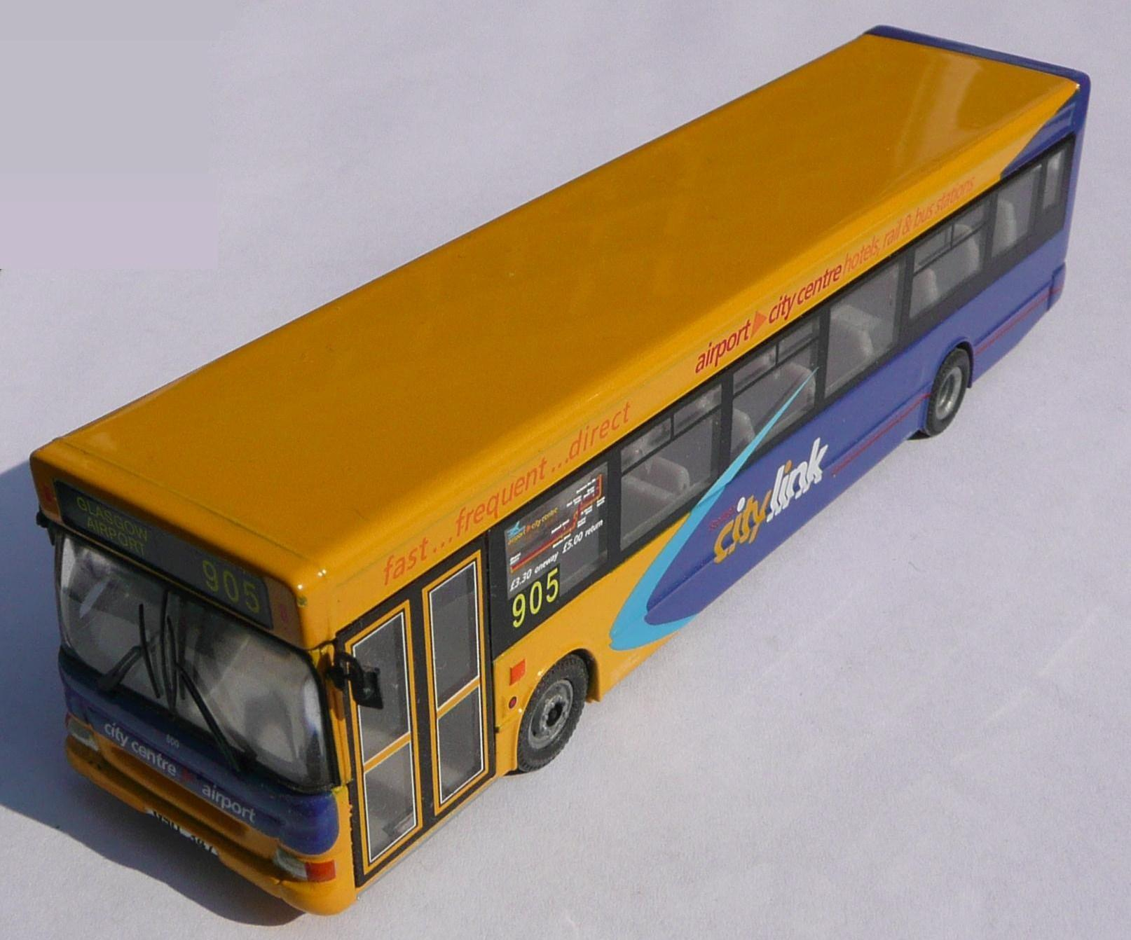 A photo of a model bus, Arriva Scotland West's 800 (GSU 347), a Dennis Dart/Plaxton Pointer, on route 905 in Glasgow, the predesseosr of the Glasgow Flyer service. The model is manufactured by Corgi Classics Limited, under the "Original Omnibus Company" brand.